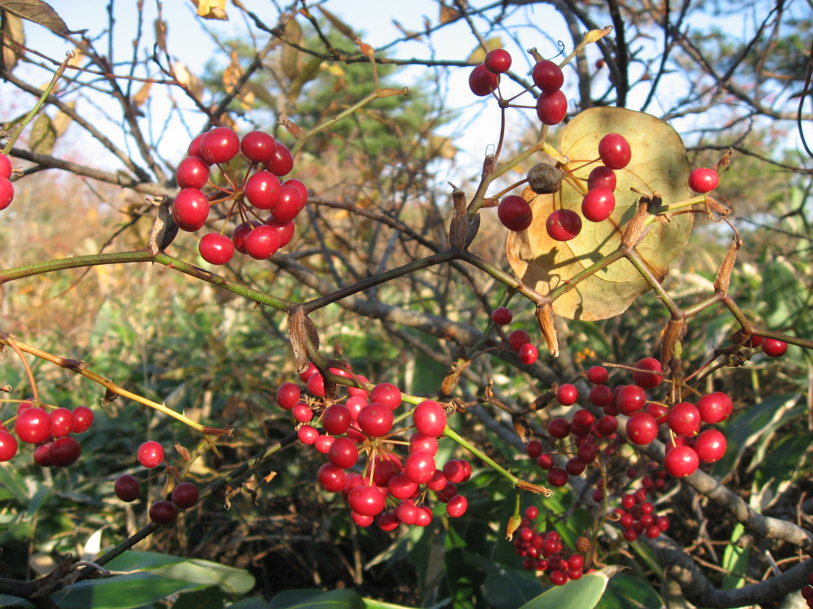 Smilax china, Fruit, Aizu area, Fukushima pref., Japan